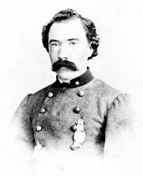 photo of Richard W. Dowling